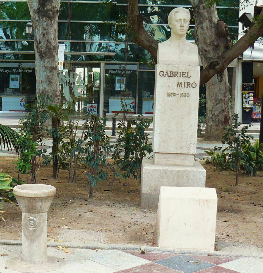 Gabriel Miro Monument in Alicante.